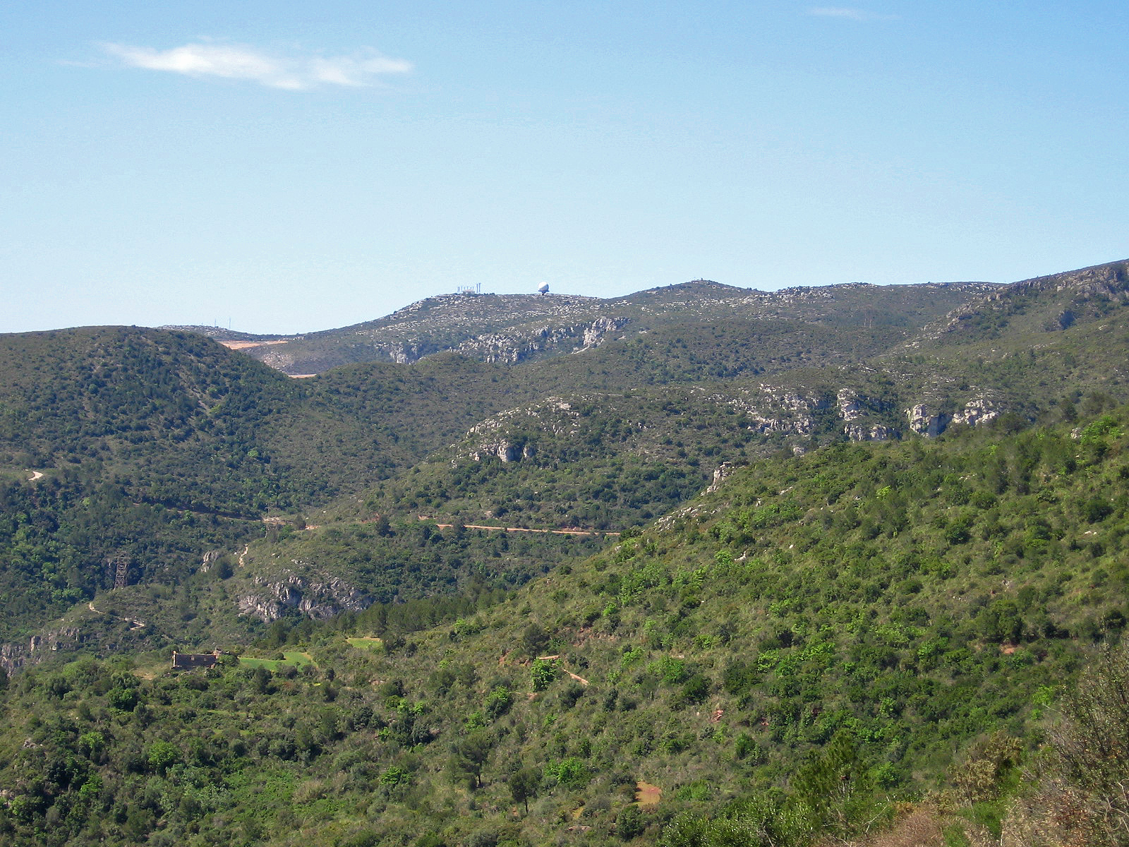 Garraf's Natural Park (Catalonia), a view from Eramprunya castle to the southwest